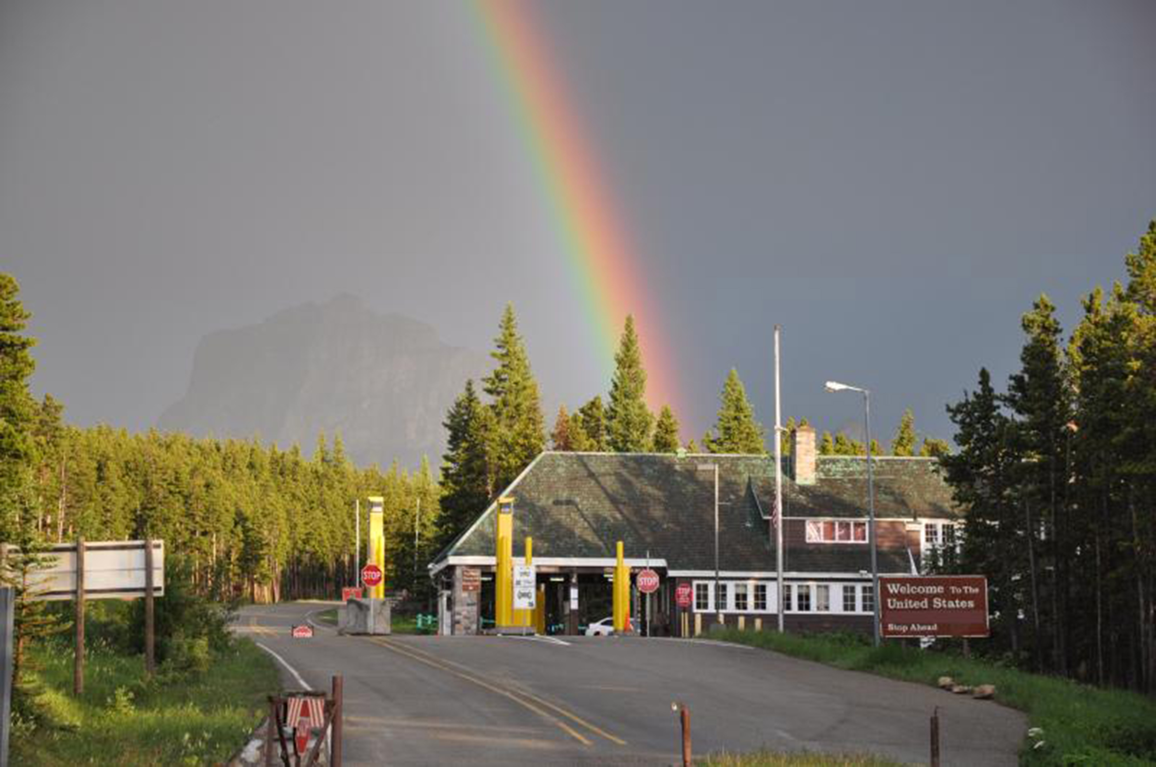 CHIEF MOUNTAIN, Mont. — U.S. Customs and Border Protection (CBP) Office of Field Operations announces the winter closing of the Chief Mountain Port of Entry (POE). The port will close at 6 p.m. MDT on Sept. 30. The Canada Border Services Agency will also close their Port of Chief Mountain, Alberta, on the same day and time. Great Falls Area Port Director Daniel Escobedo said, “During the summer of 2016, CBP officers at the Chief Mountain Port of Entry processed thousands of travelers arriving into the United States from all over the world, giving many their first opportunity to see the beauty of this area and view its wildlife.” The Chief Mountain POE will re-open on May 15, 2017. Port of entry information, as well as additional Know Before You Go advice can be found in the travel section on Photo provided by: U.S. Customs and Border Protection